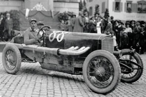 Otto Merz, race driver, after the Klaussen Race